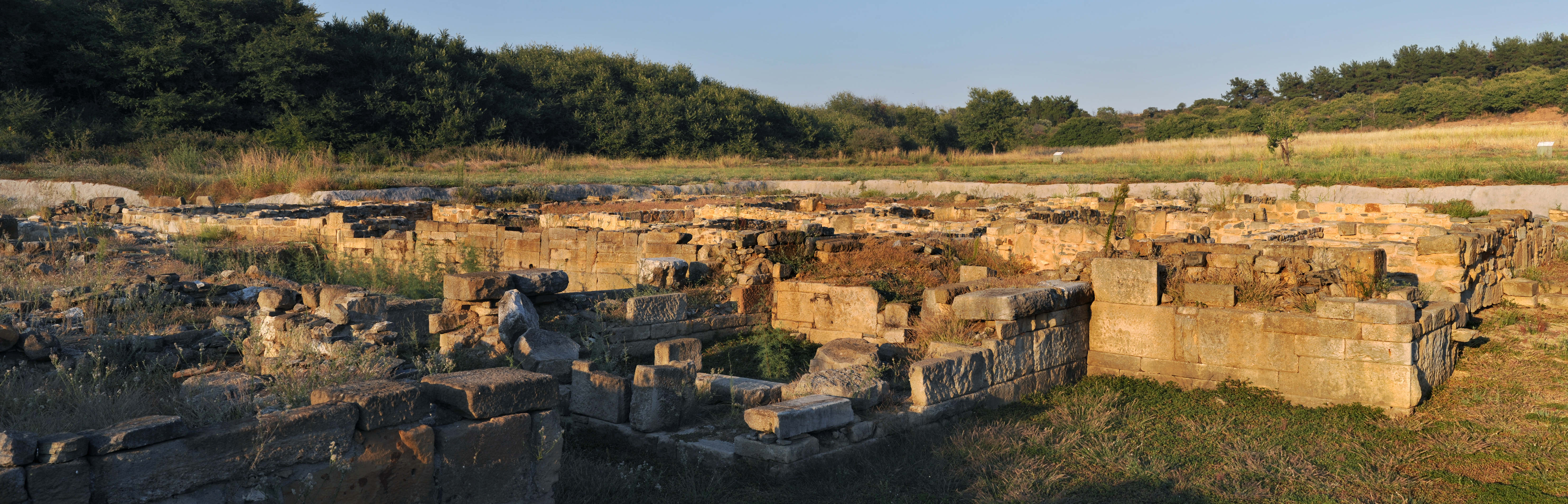 Archeological Site of Abdera Xanthi Thrace Greece